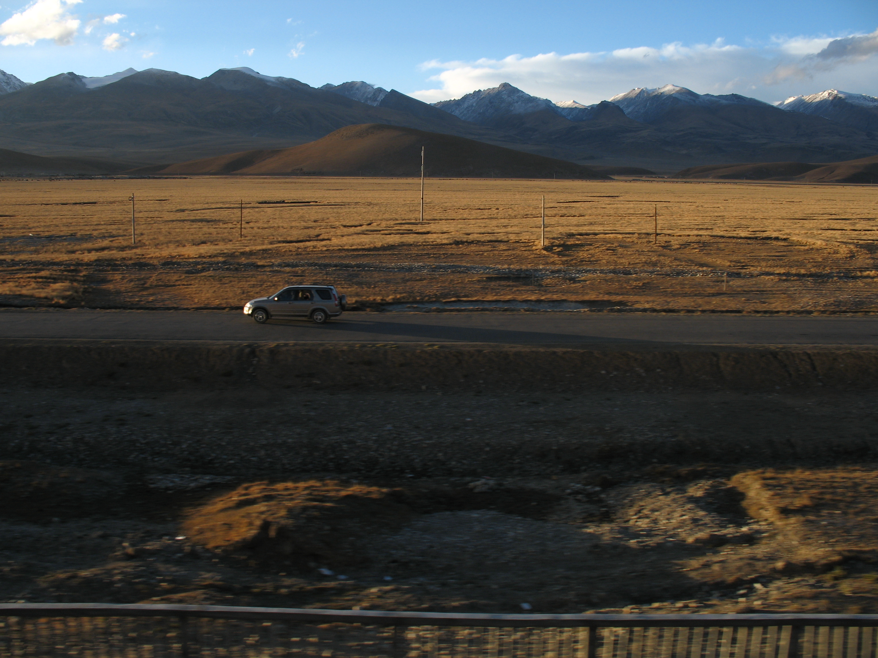 Road near Lhasa with mountains in the background, taken from the Qinghai-Tibet railway.